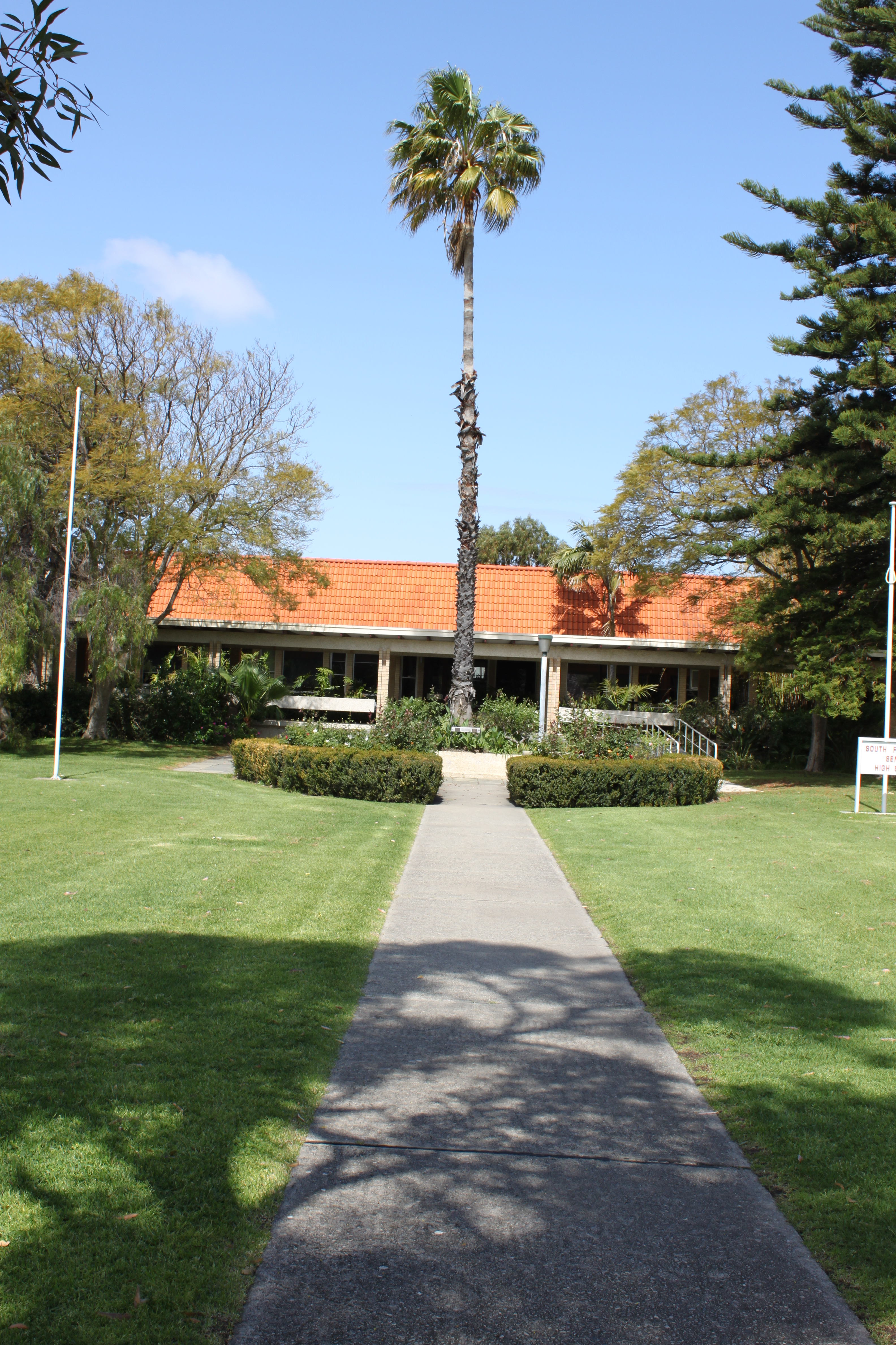 South Fremantle Senior High School's front entrance